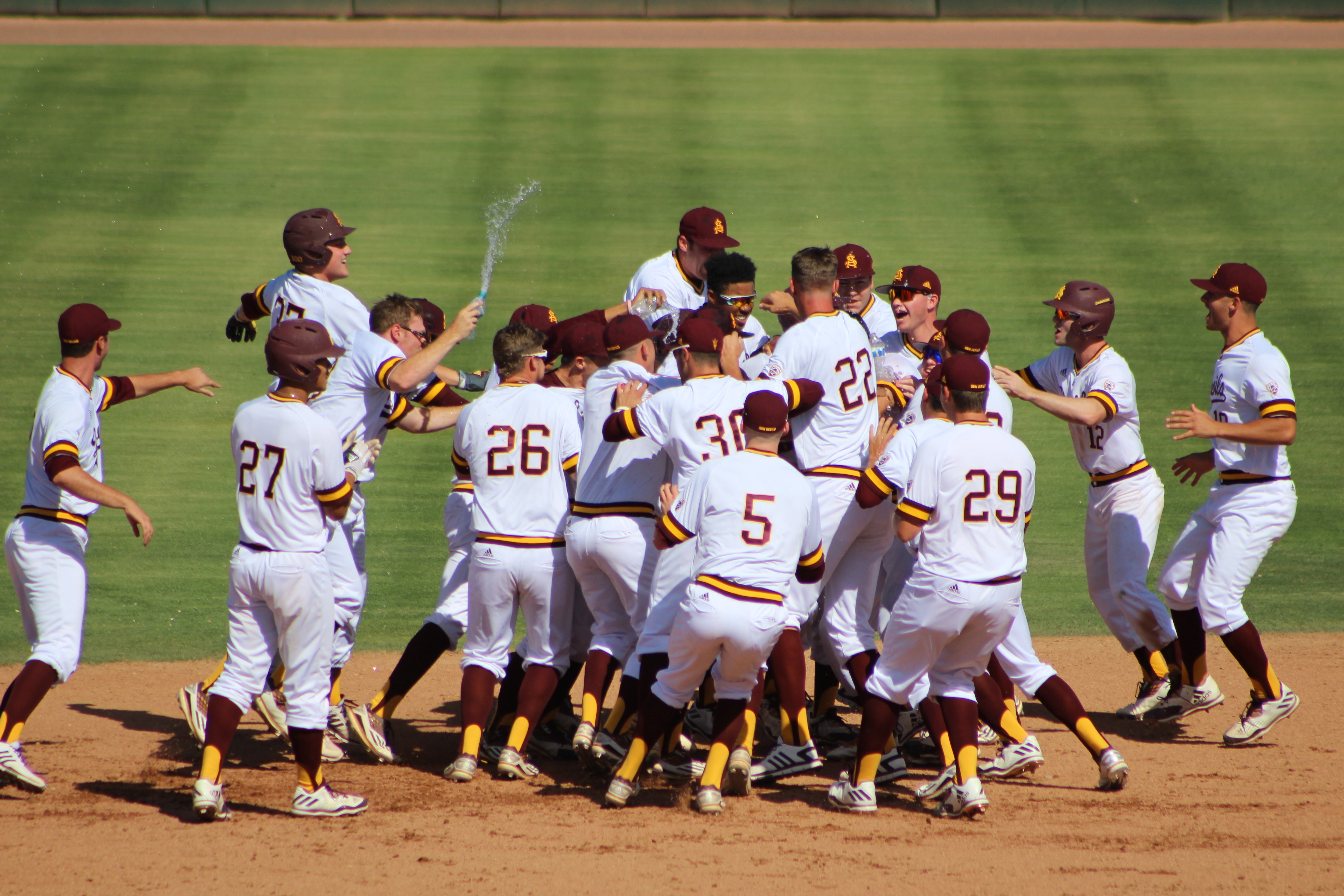 Sophomore pitcher James Ryan douses Freshman Hunter Bishop and the rest of his teammates after Bishop's walk-off single capped a Sun Devil 4-run 9th inning rally to sweep the 3-game series from WSU.